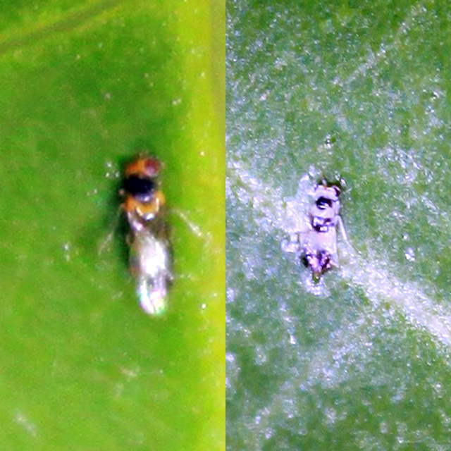 Erythrina Gall WaspQuadrastichus erythrinae Left is female and right is male.デイゴヒメコバチ。左がメス、右がオス。